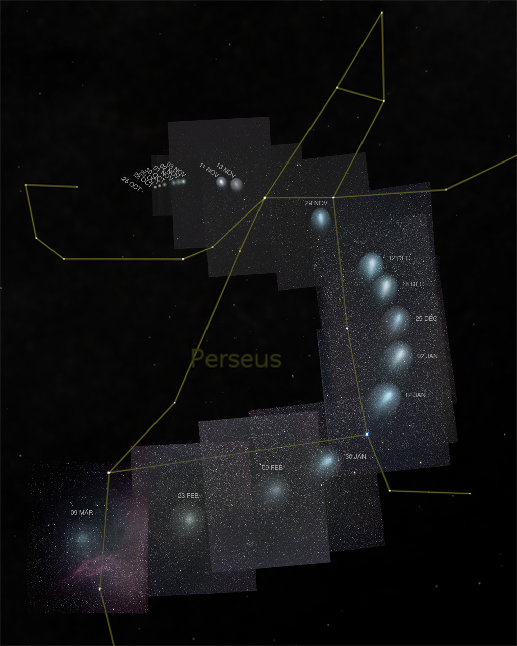 Comet 17P/Holmes 19-night composite with constellation stick figure